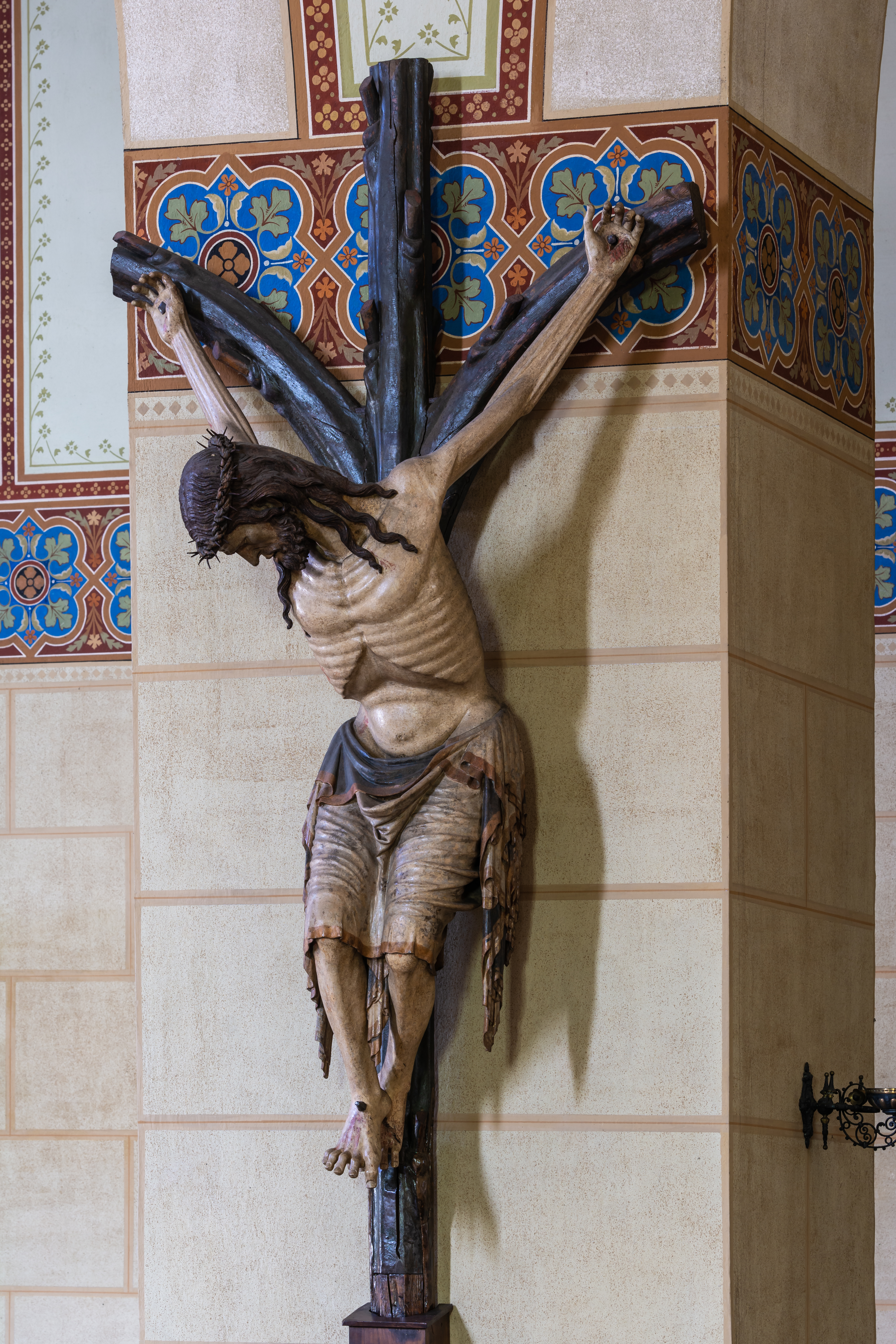 Forked cross at the Dominican church St. Nicholas in Friesach, Carinthia, Austria. Anonymous master, 2nd quarter of 14th century.